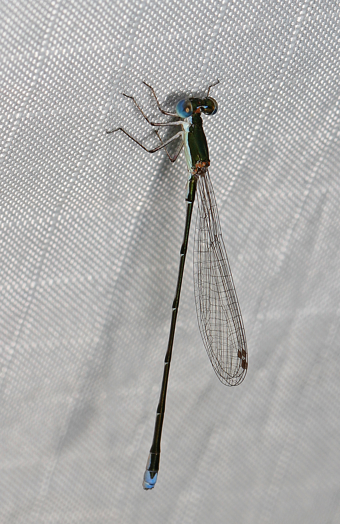 Southern Sprite - Nehalennia integricollis, Sapelo Island Georgia. It is always a thrill to see a Sprite - I don't see them often due to their relative rarity and small size. It is unusual for them to come to black lights. identity confirmed by John Abbott.